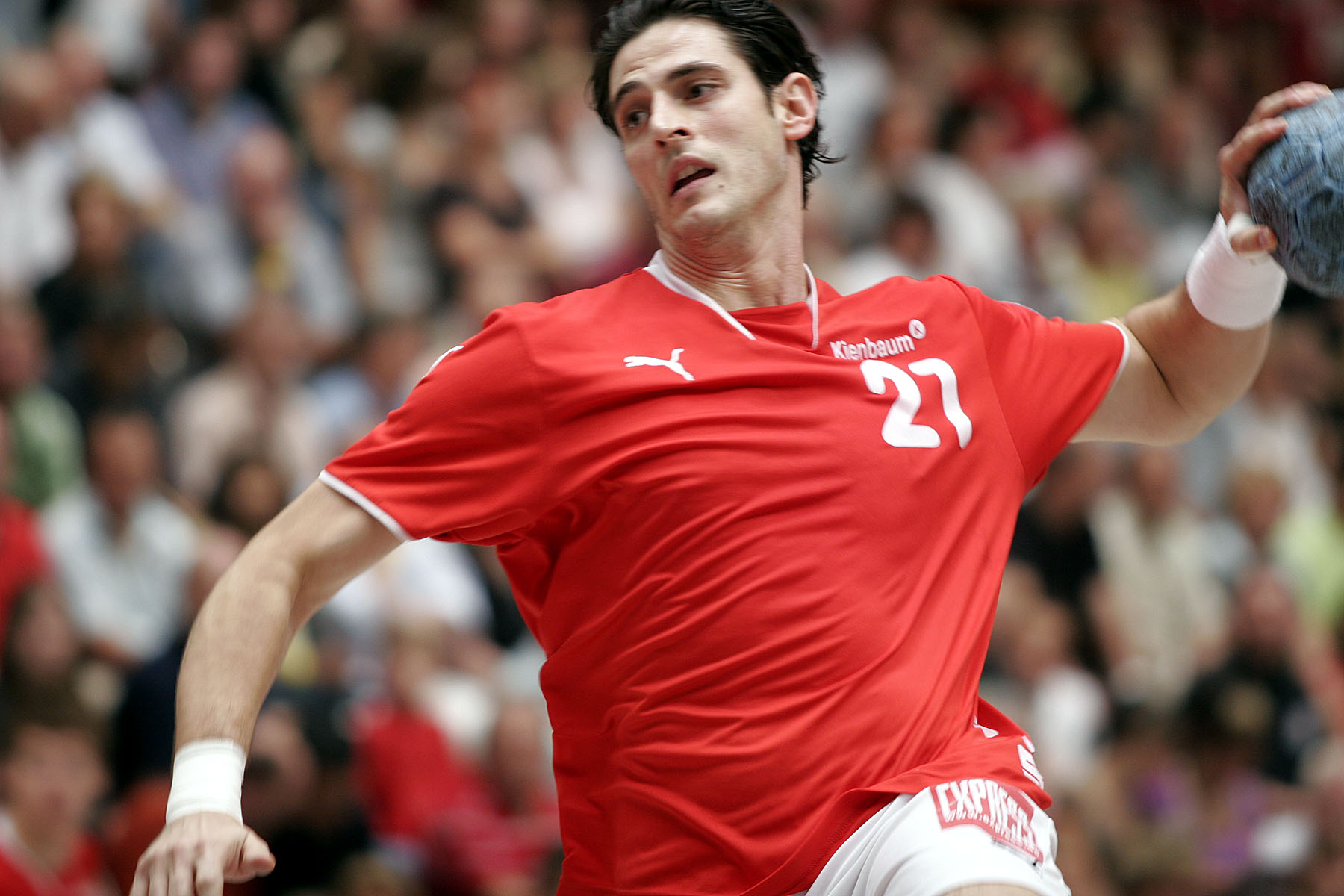 Alexandros Alvanos, Greek handball player from VfL Gummersbach, during the Schlecker Cup 2007 in Ehingen (Germany)